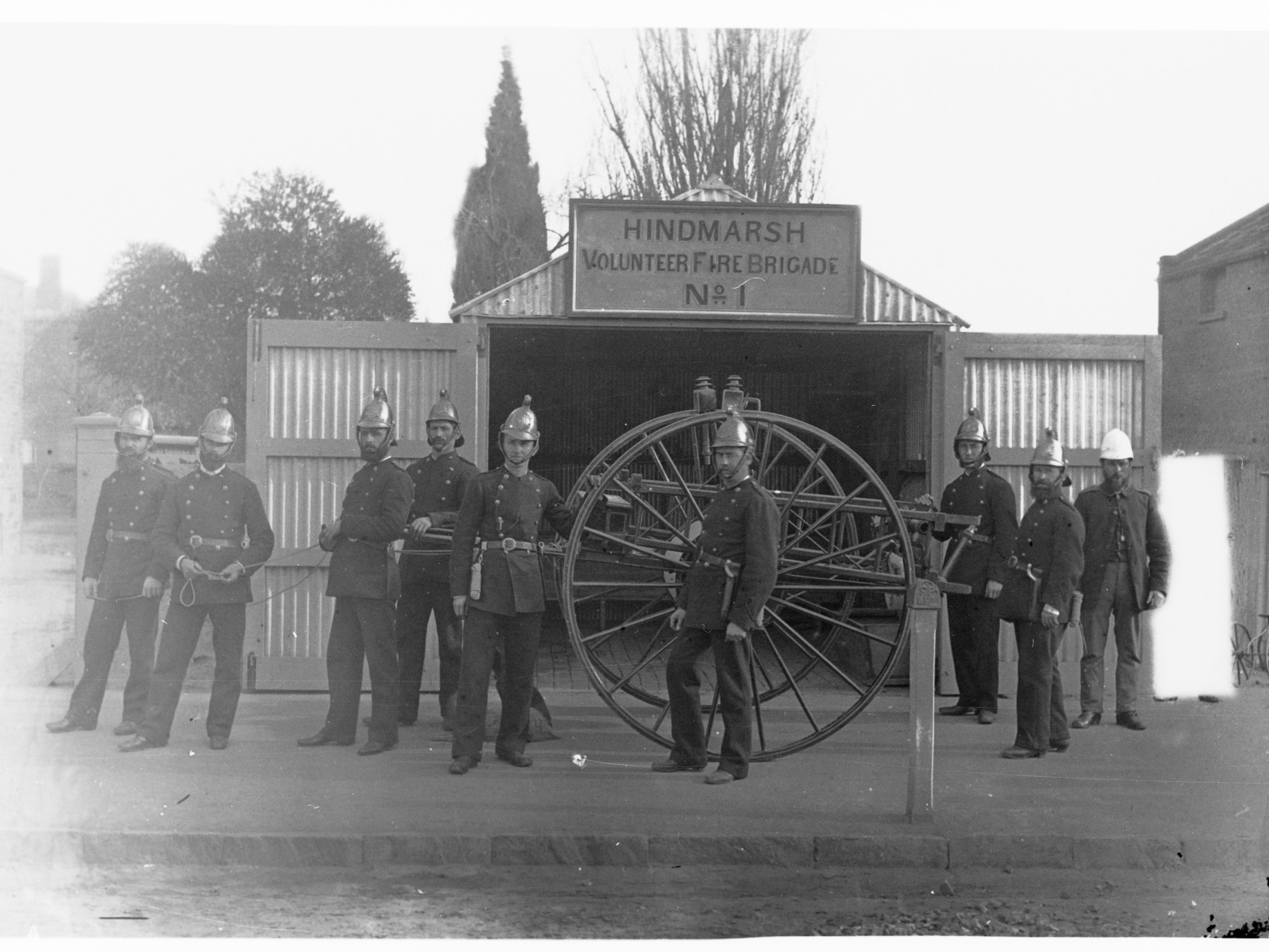 This photo appeared in an article in 'The Mail' (Adelaide) on 24 January 1925 titled STORY OF HINDMARSH FIRE BRIGADE: Forty Years of Volunteer Service - The photo was then captioned: “First firemen enrolled with the Hindmarsh Volunteer Fire Brigade in 1884, standing in front of their first station on the Port road, with the hand reel, which at that time was the only appliance owned by the brigade.”